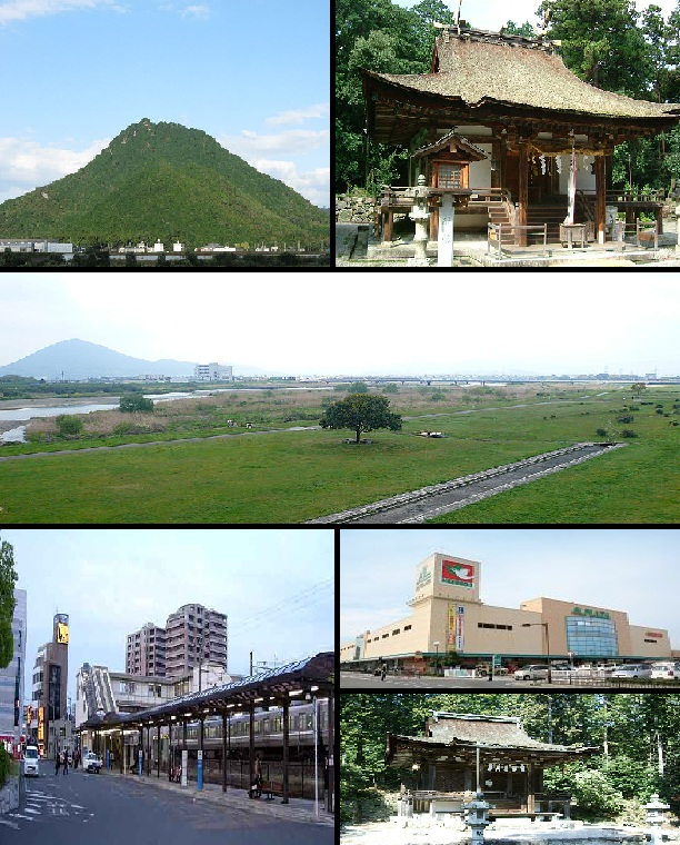 Yasu montage